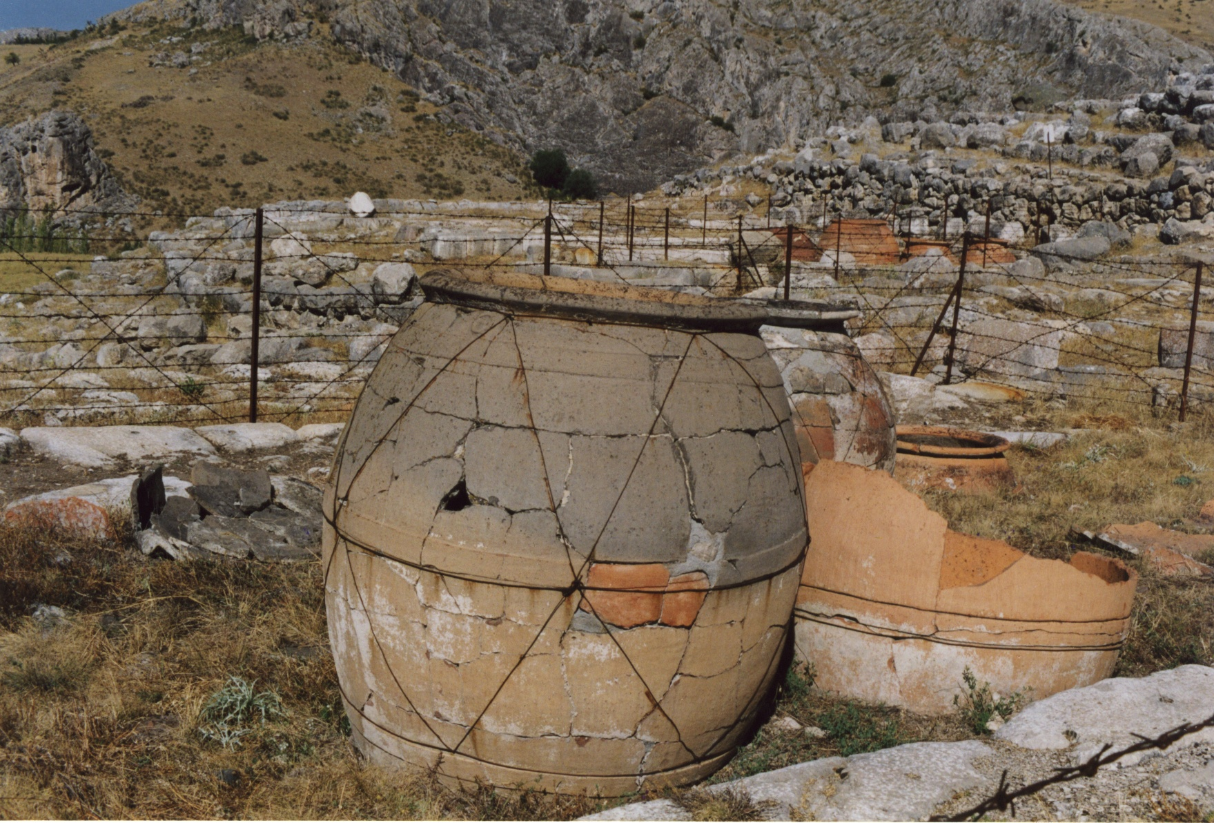 Storage jar magazine, large storage pottery, for grain-cereal